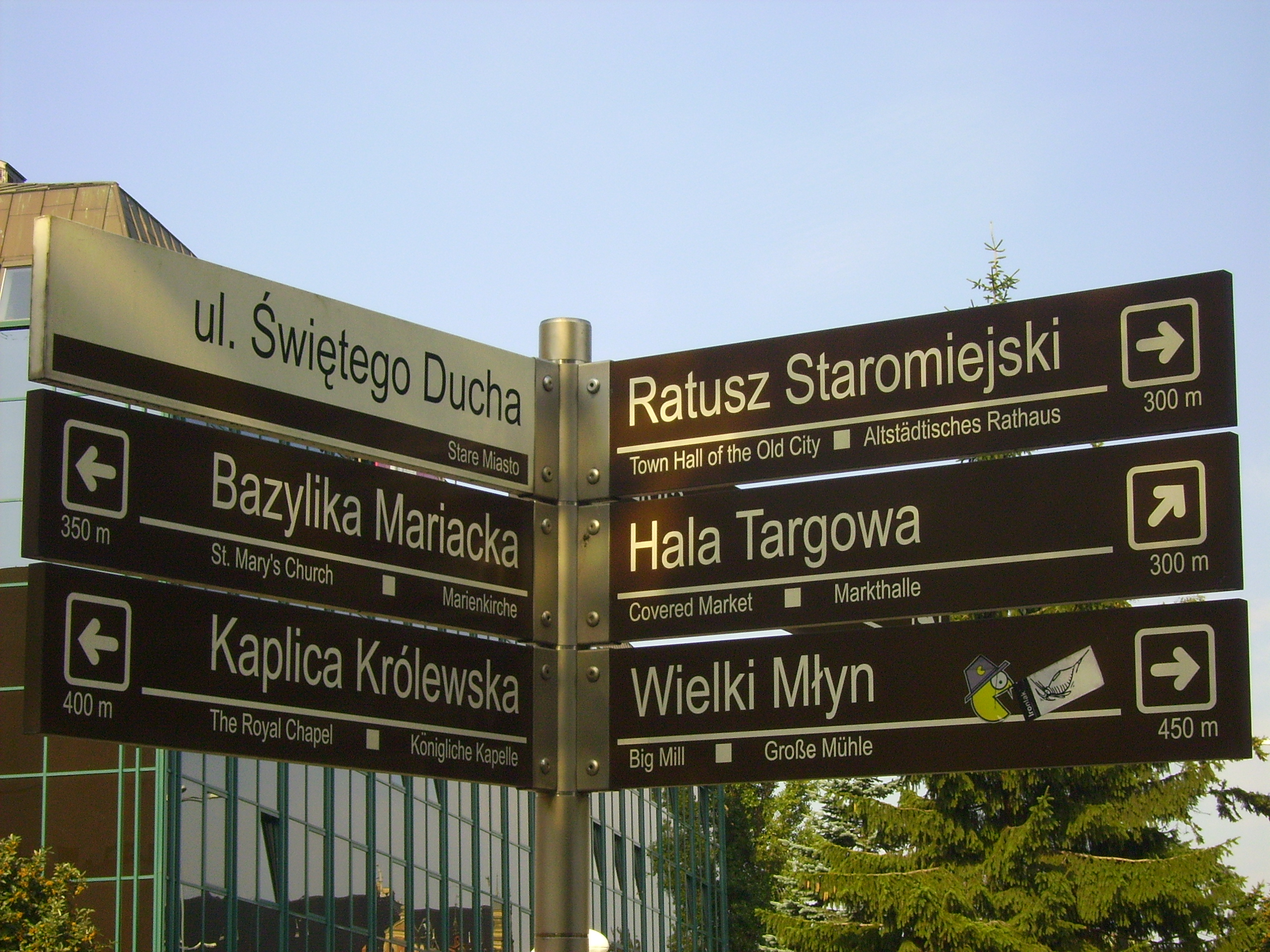 Tirlingual signs indicating touristic sights in Gdansk, Poland.